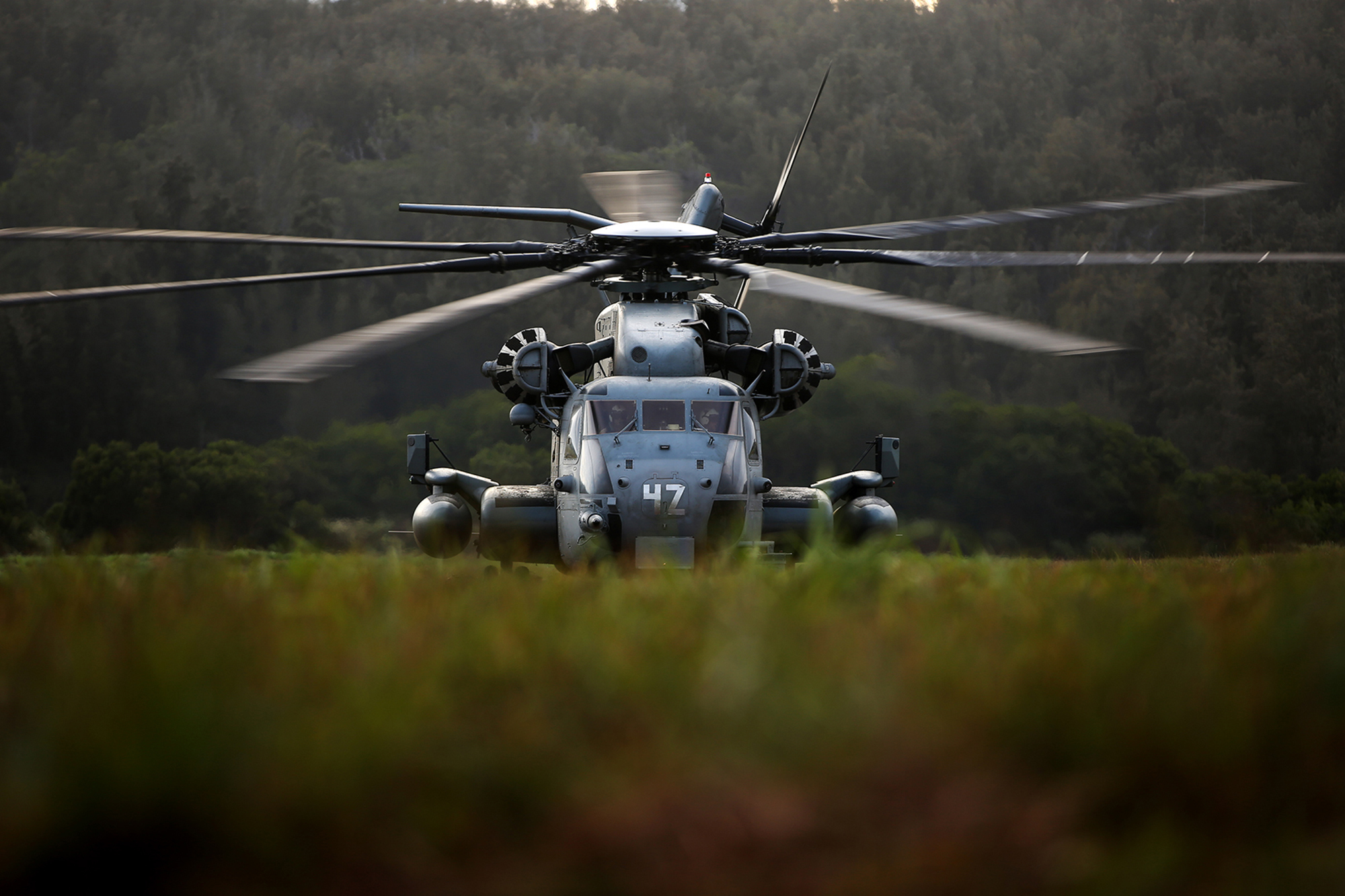 A CH-53E super stallion, callsign "Slayer," assigned to Marine Heavy Helicopter Squadron 463 "Pegasus," touches down to deliver water to U.S. Marines of 3rd Battalion, 3rd Marine Regiment. The Squadron is supporting the Marines and their foreign partners during the ground combat portion of Rim of the Pacific (RIMPAC) Exercise 2014 as 3/3 experiments with seabasing operations from the USS Peleliu (LHA 5) on a company level. Traditionally, landing teams functioned as battalions. With Company Landing Teams, the Marines are experimenting with resupplies for only 24 hours at a time across the area of operation. (U.S. Marine Corps photo by Cpl. Matthew Callahan/Released)